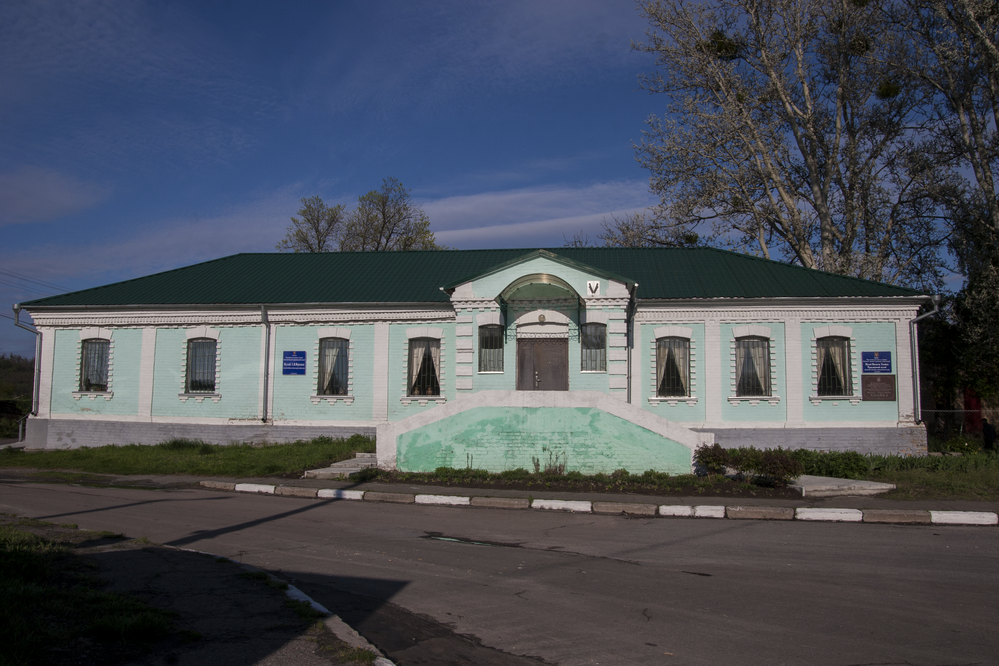 Museum of archeologist Vikentii Khvoika in Khalepya village, Kyiv Oblast